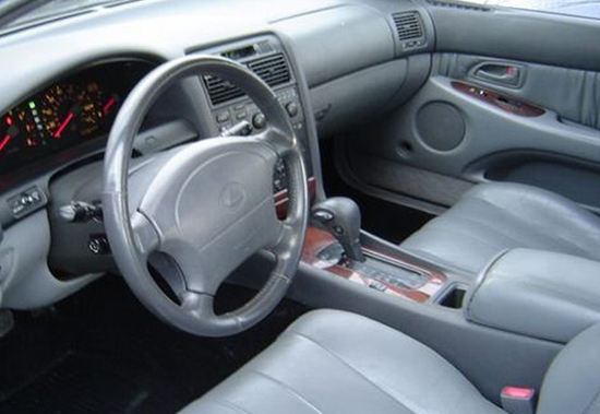 Lexus GS 300